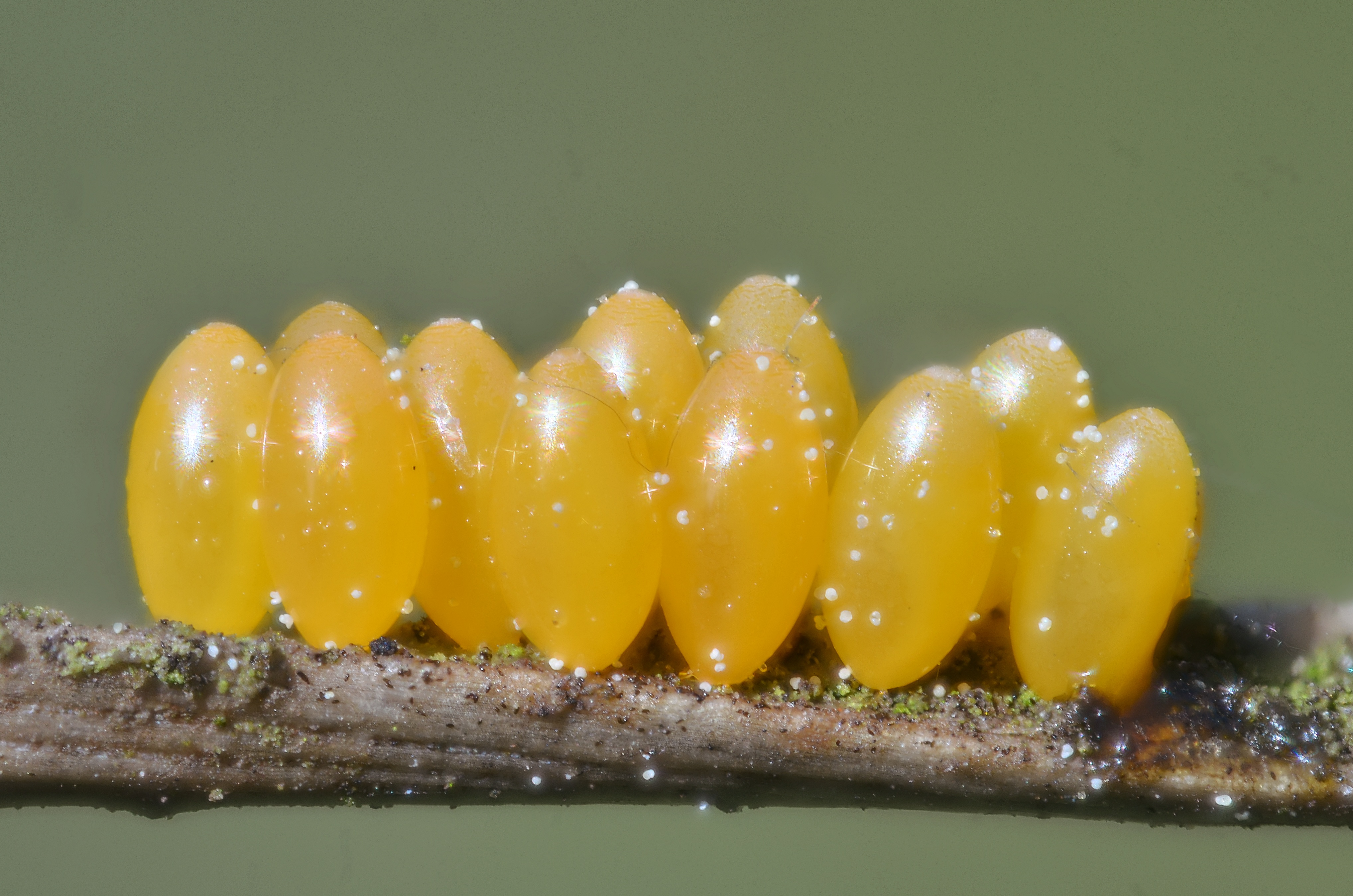 Ladybird eggs (maybe Exochomus quadripustulatus) on a dried pine needle. Treignes. Focus stack of 15 images. Micro-Nikkor AF 60mm f/2.8D on extension tubes at f/3.5, 1/60s, 100 ISO, natural morning light (in the sun)